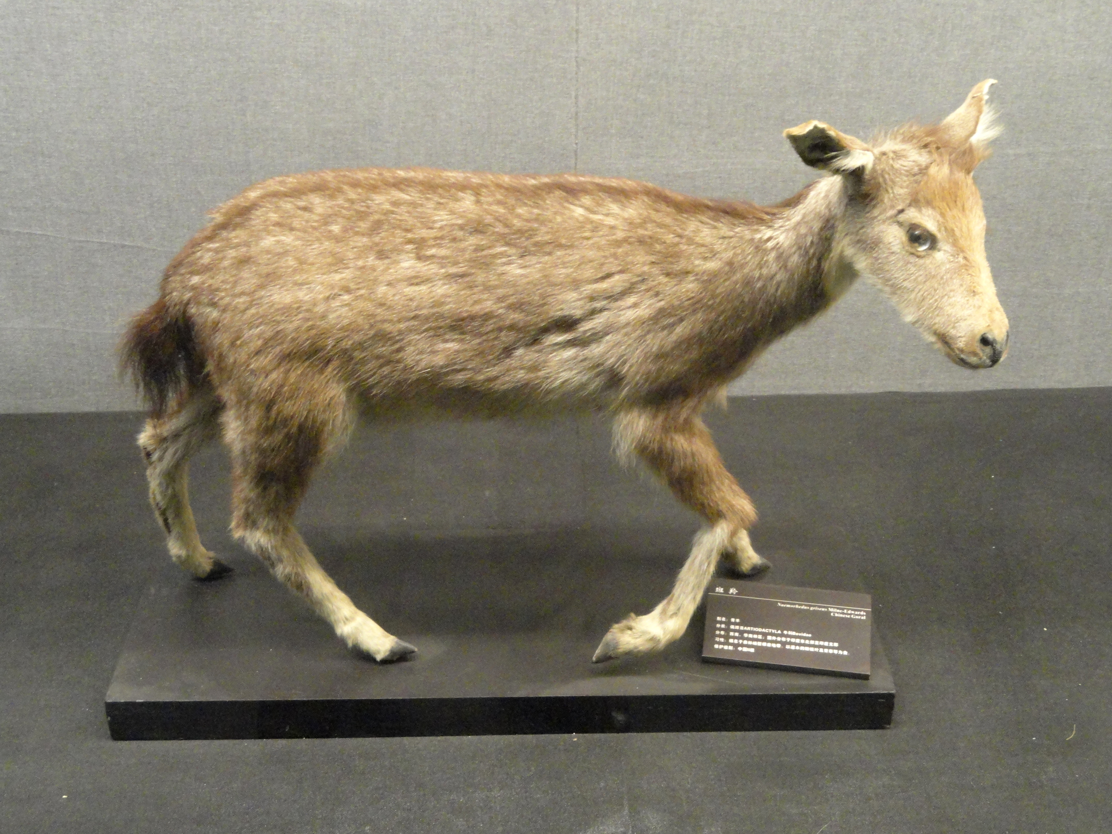 Taxidermy exhibit in the Kunming Natural History Museum of Zoology (昆明动物博物馆), Kunming, Yunnan, China.